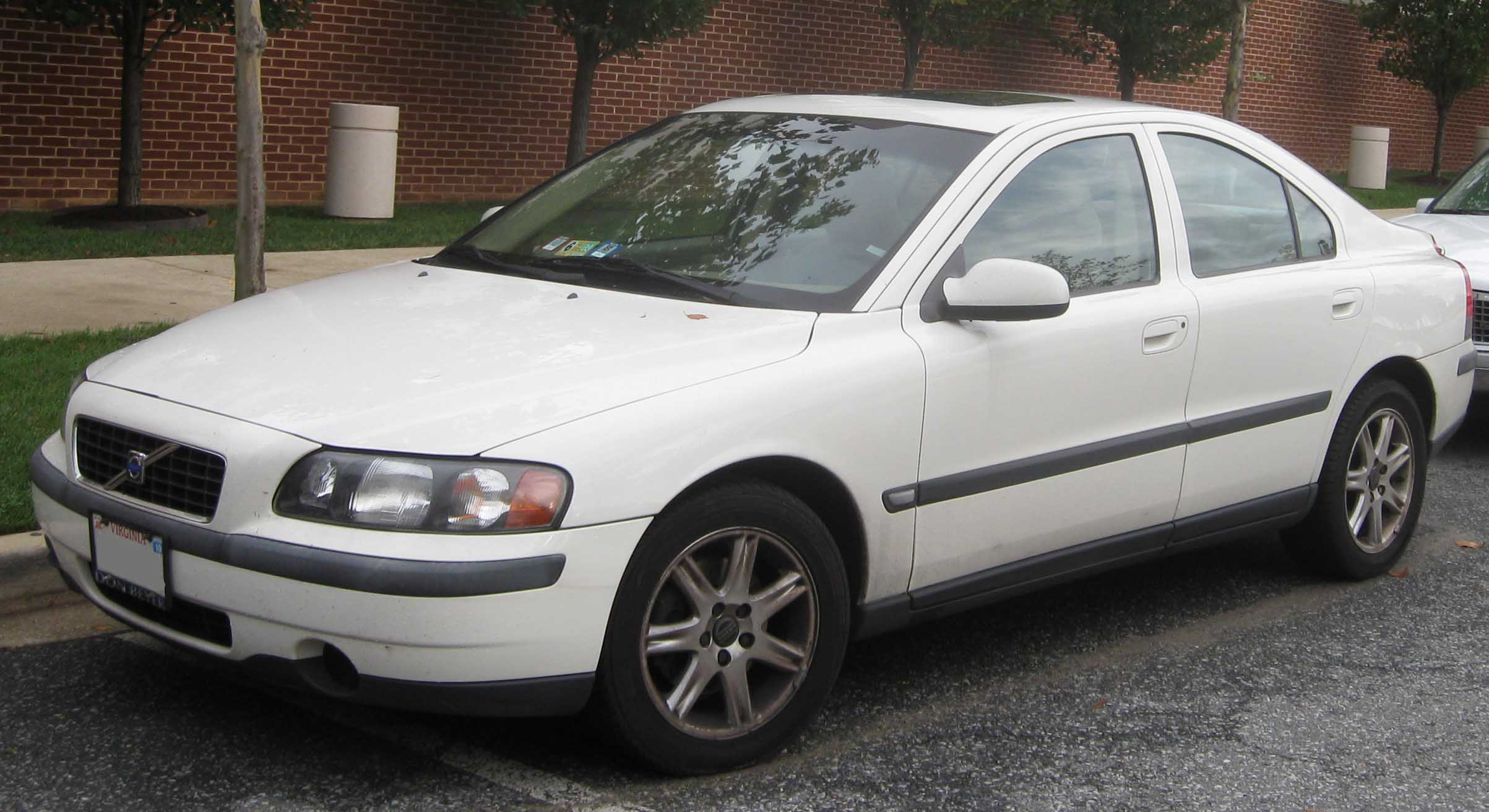 2001-2004 Volvo S60 photographed in College Park, Maryland, USA.